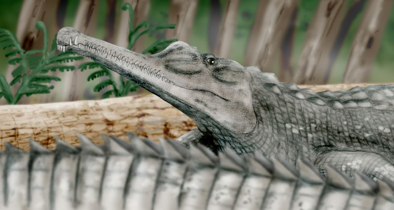 Angistorhinus grandis, a phytosaur from the Late Triassic of Wyoming. Digital.